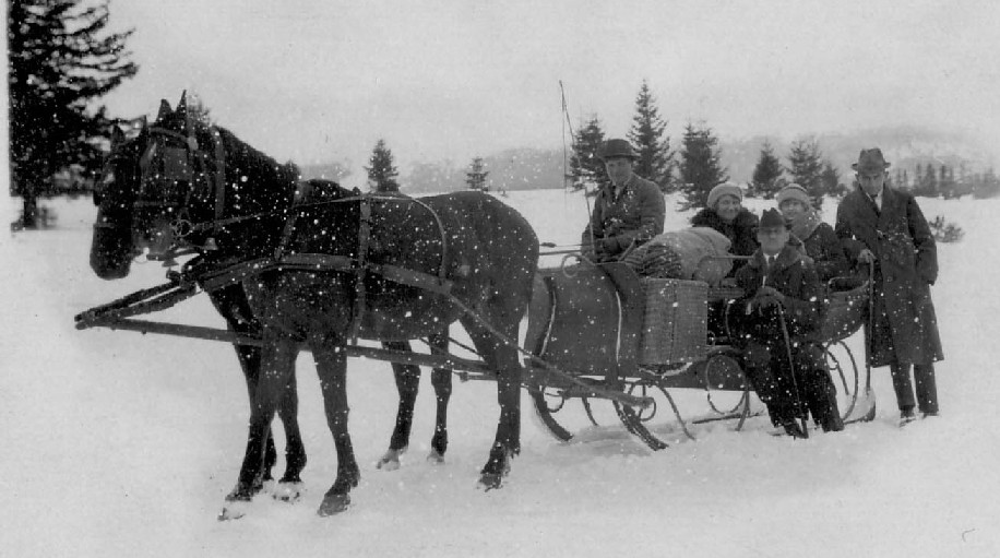 Franz Kafka arriving in Spindelmuehle in 1922